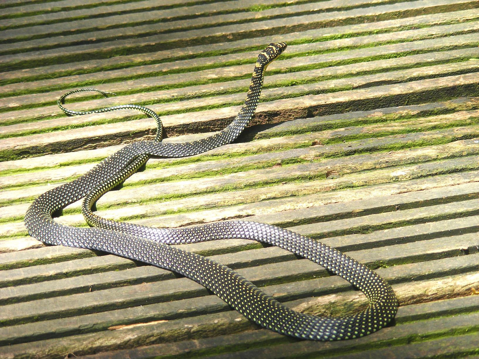 Paradise Tree Snake Chrysopelea paradisi at Singapore DSCF6896